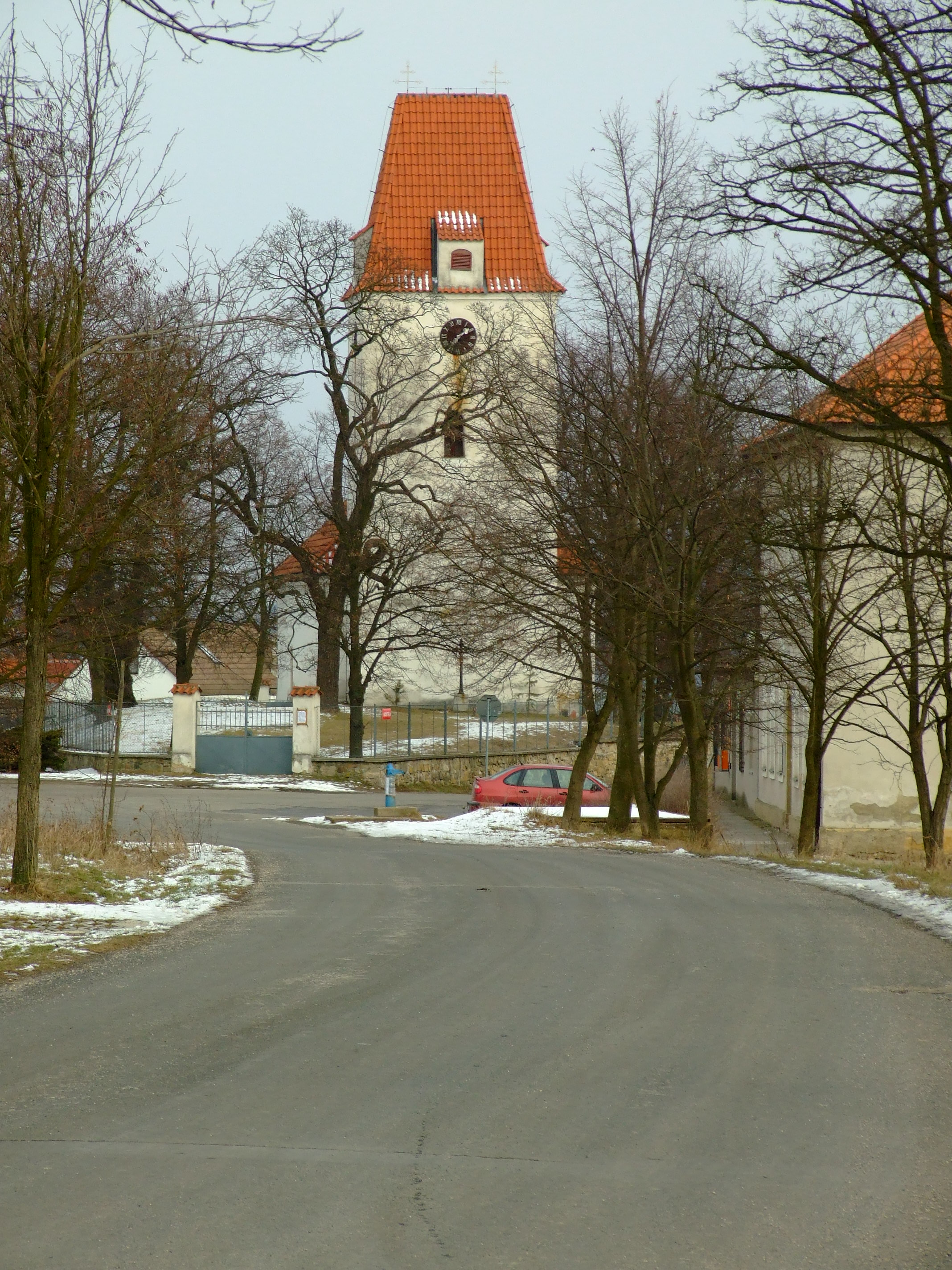 Vráž village near the city of Beroun, Central Bohemian region, CZhelp